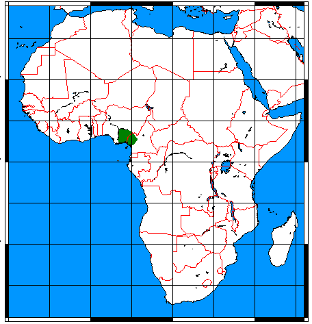 Range map for Calabar Angwantibo (Arctocebus calabarensis), map made with help of Map depending on the range map at IUCN red list.